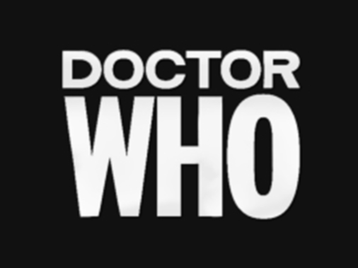 Doctor Who logo used from 1963 to 1967